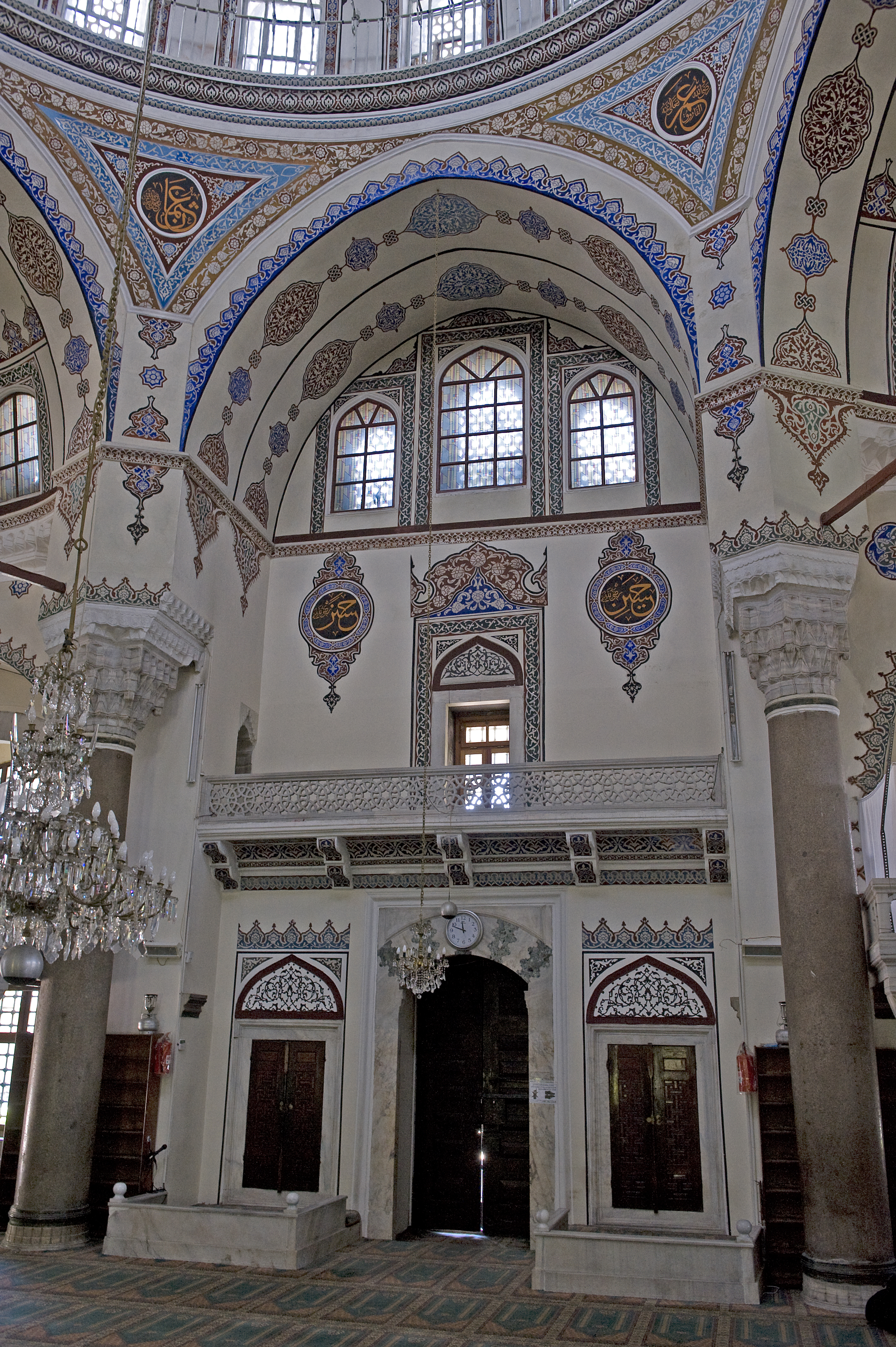 [The mosque] It was commissioned by Kara Ahmet Paşa (‘Black Ahmet’), a Grand Vizir (and brother-in-law) of Süleyman the Magnificent. He was married to Fatma Sultan, a daughter of Süleyman’s father Selim I. The building works started in 1555 (shortly before Ahmet Paşa died), and finished three years later under supervision of Rüstem Paşa, another Grand Vizier (and a son-in-law) of sultan Süleyman. The courtyard north of the mosque has a large şadırvan (fountain for ritual ablutions) in its center; it is surrounded by a medrese, with cells for the students and a dershane (main classroom). The türbe (mausoleum) of Kara Ahmet Paşa (built 1558) stands next to the mosque. Info from J.M.Criel, Antwerpen. Sources: ‘Türkiye Tarihi Yerler Kılavuzu’ – M.Orhan Bayrak, Inkılâp Kitabevi, Istanbul, 1994